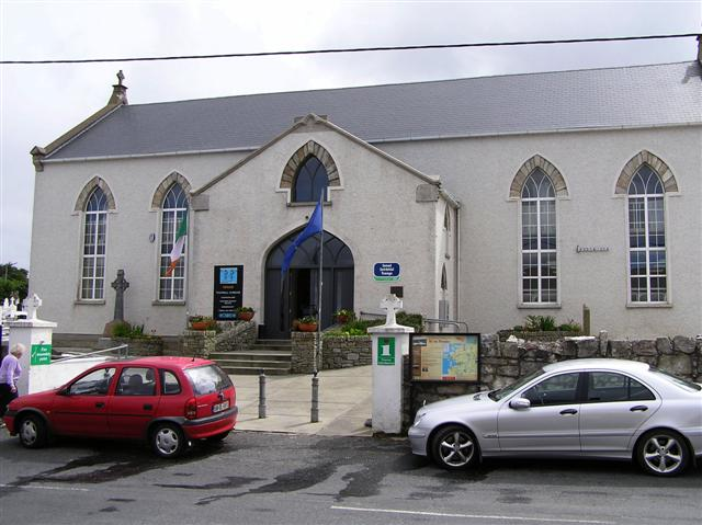 Dungloe library Located at the head of the town. When you see the outline of the building and the surrounding graveyard, you would think that this is a church, but this building which was the original RC church is now a library and a community hall and also houses a tourist office in high season. The new church is located further along the road.